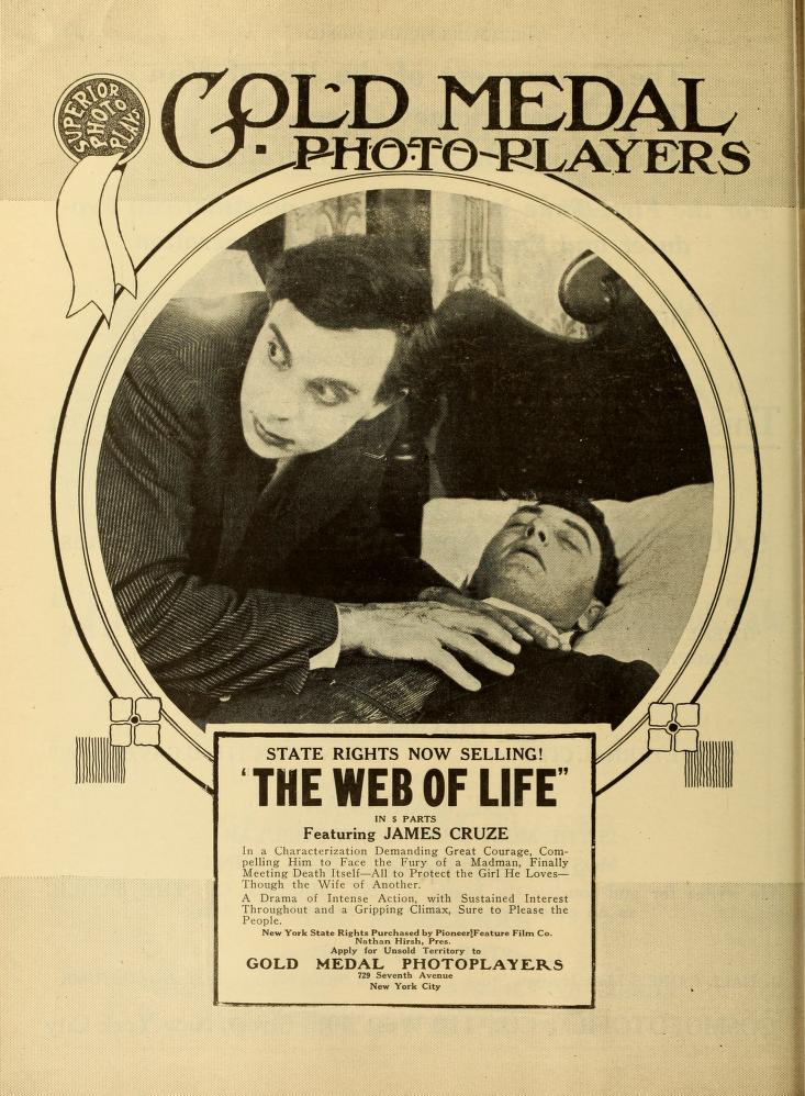 Advertisement in Moving Picture World for the American drama film The Web of Life (1917).